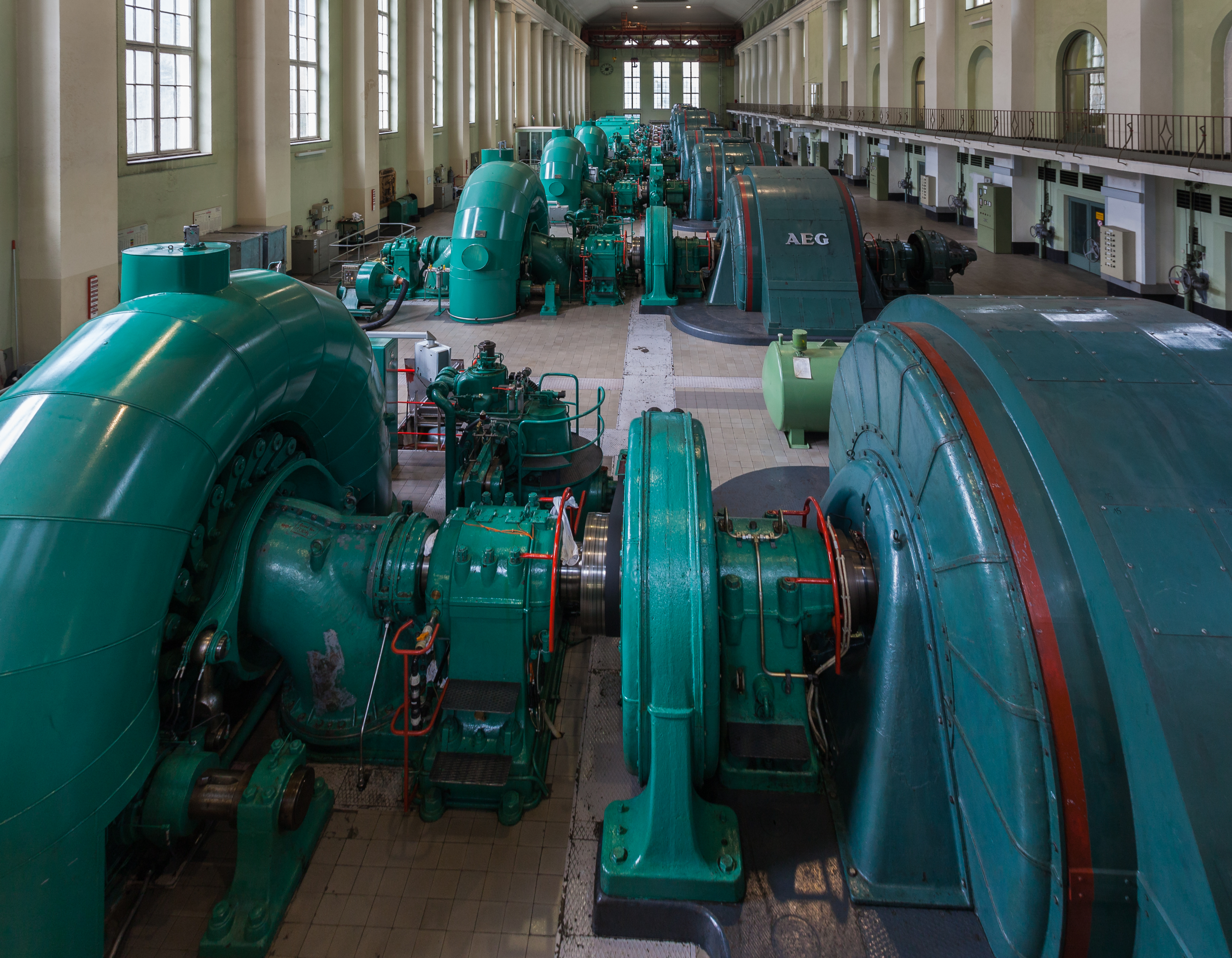 Walchensee hydroelectric power plant, Kochel, Bavaria, Germany